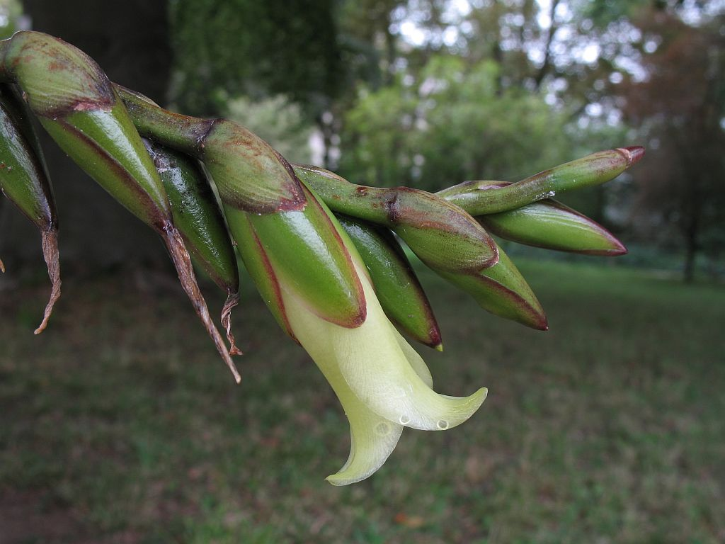 Vriesea pseudoligantha in cultivation at the Botanical Garden of Heidelberg, Germany.